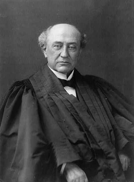 Portrait of Justice David Brewer